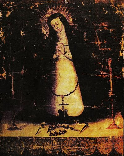 The condition of the image of the Reina de Cavite after it was stolen, before its restoration and enthronement.